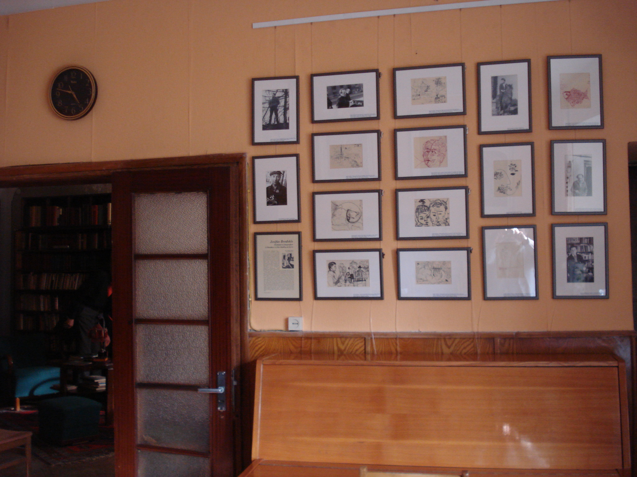 Exposition of Joseph Brodsky's drawings and photos from the private collection of Ramunas and Elia Katilius in the House-museum of Venclova Family in Vilnius. Pamenkalnio g. 34.